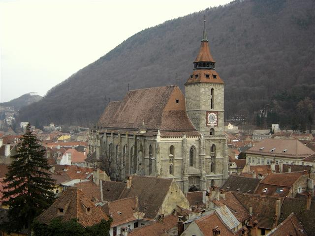 The Black Church,Brasov(from the Warthe Hill)